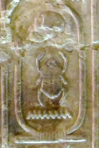 Cartouche 69, Abydos King List. Temple of Seti I, Abydos, Egypt